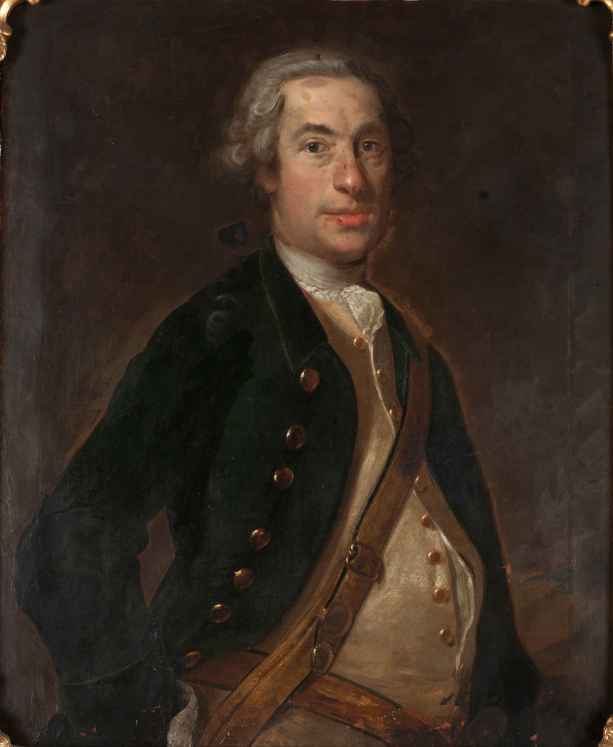 Baron Arent Gustaf Silfversparre (1727-1818), painted by Johan Henrik Scheffel (1690-1781)